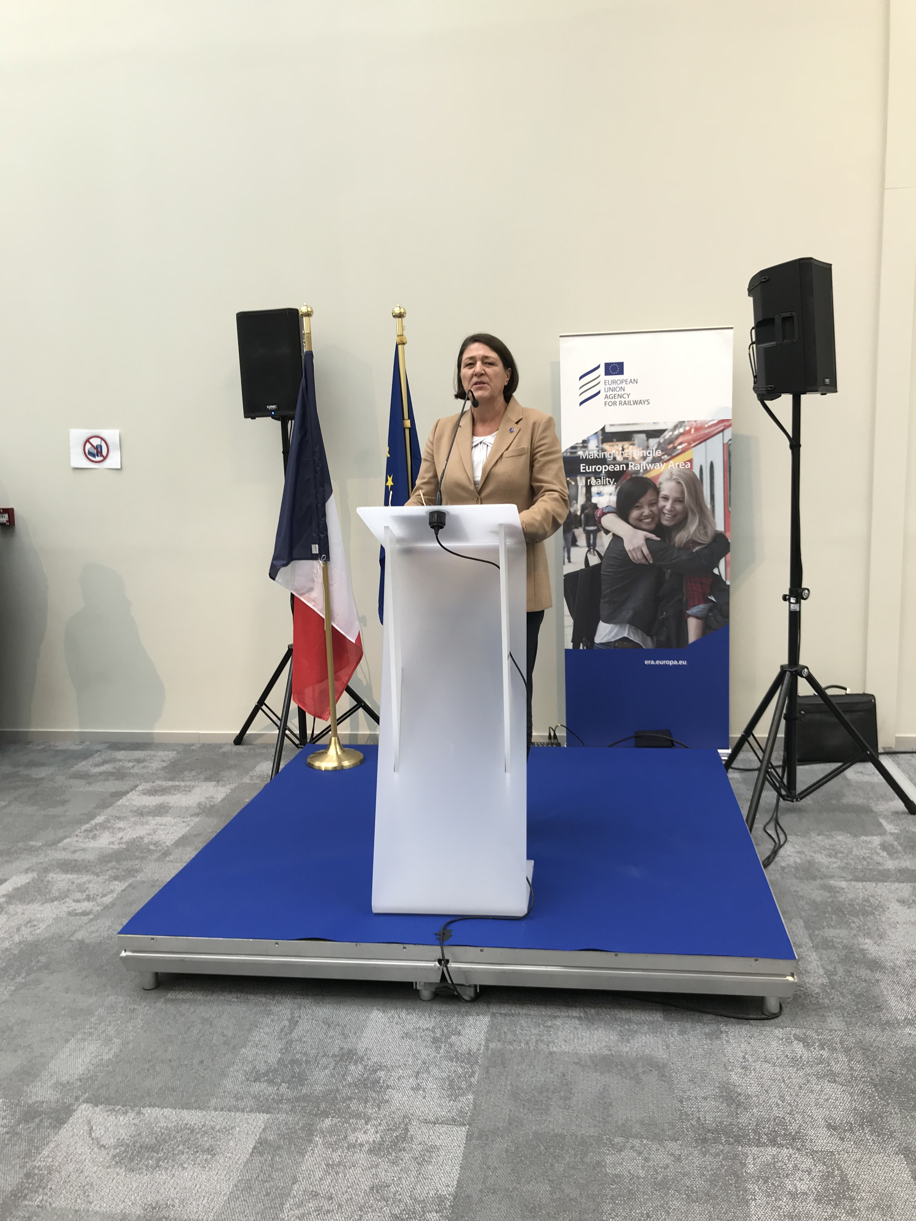 Violeta Bulc delivers the opening speech of the ETCS conference CCRCC 2019 in Valenciennes